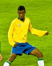 profilepic Leo